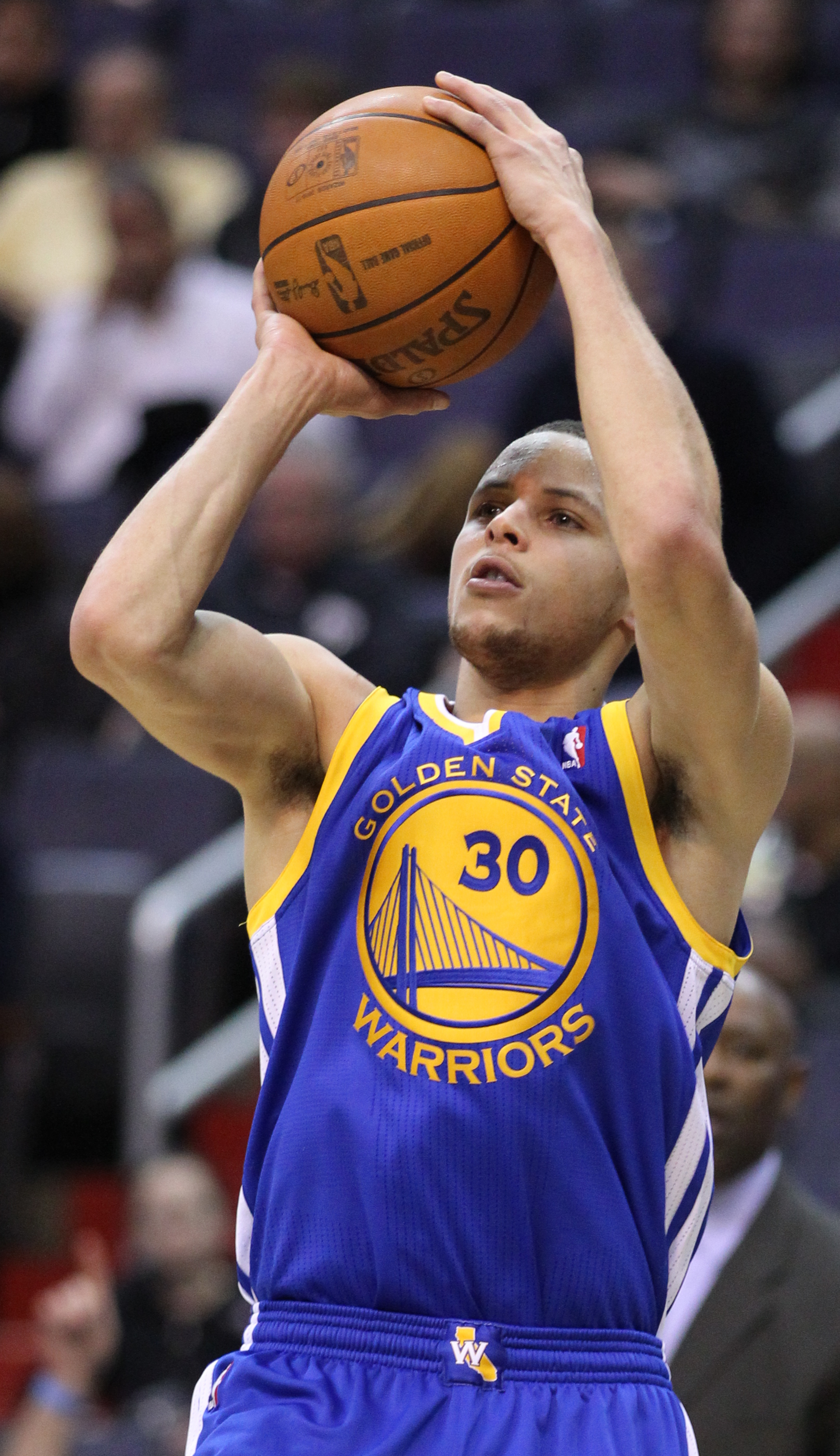 Stephen Curry of Golden State Warriors